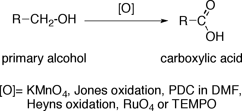 Oxidation of primary alcohol to carboxylic acid